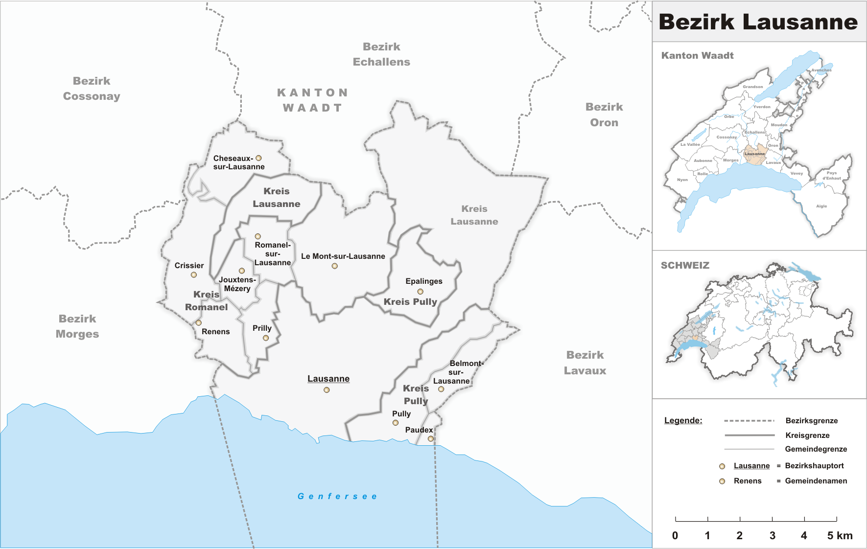 Municipalities in the district of Lausanne